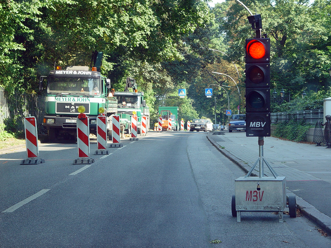 temporary traffic lights with sensor/camera (?) in Hamburg, Germany